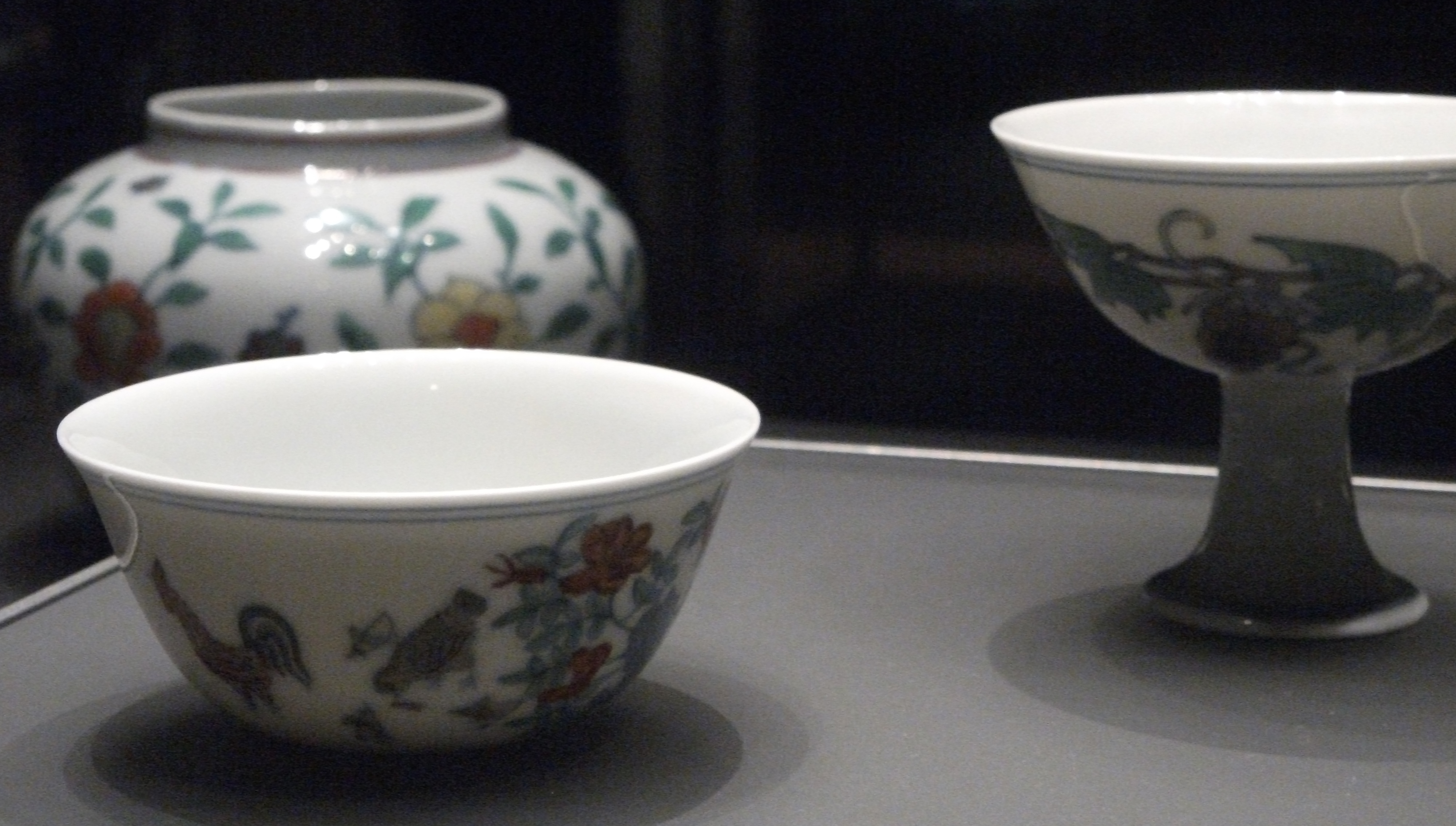 Percival David Collection, Room 95 , British Museum